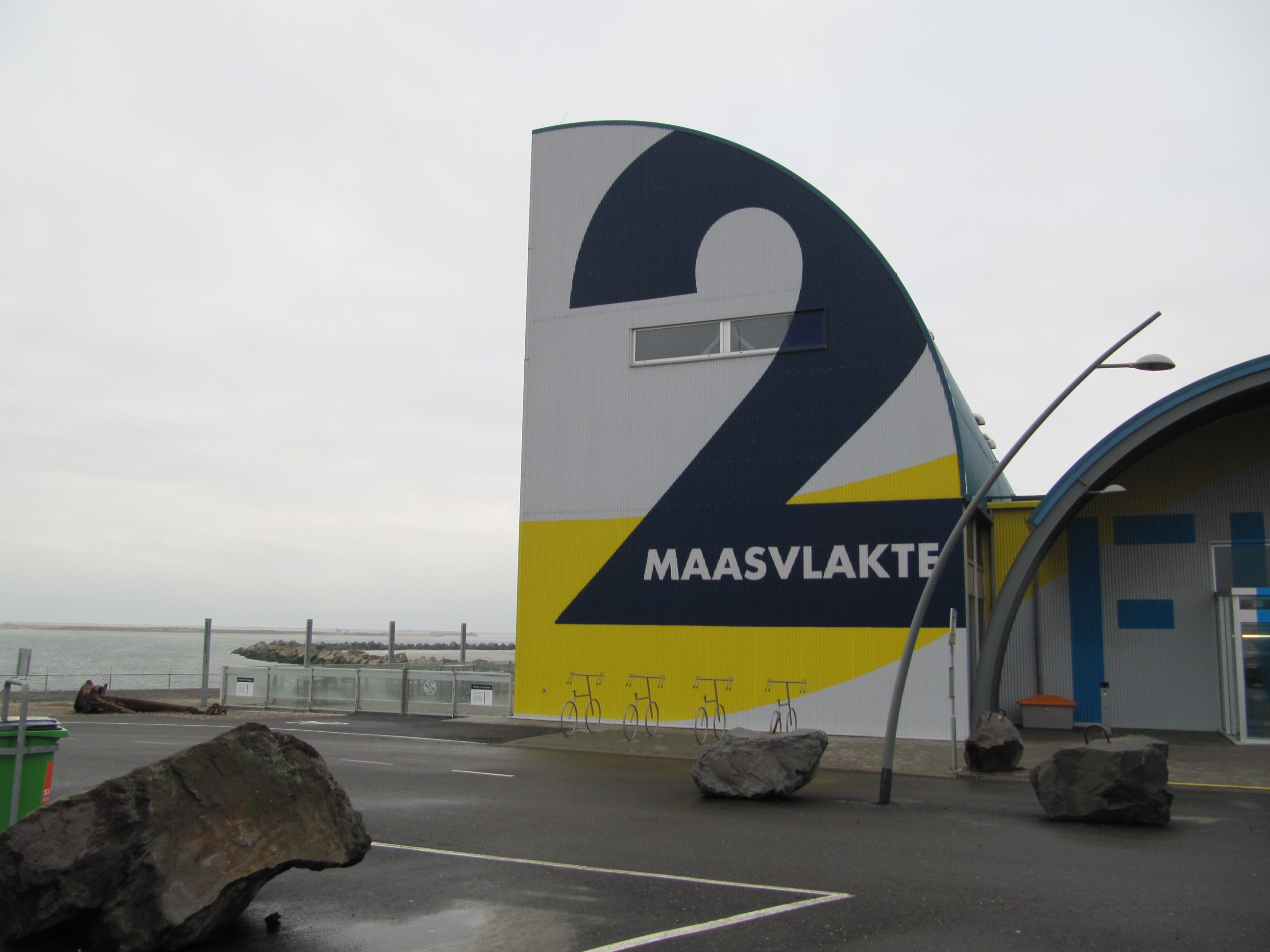 Informatiecentrum Maasvlakte 2